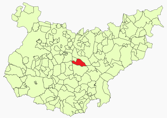 Puebla de la Reina